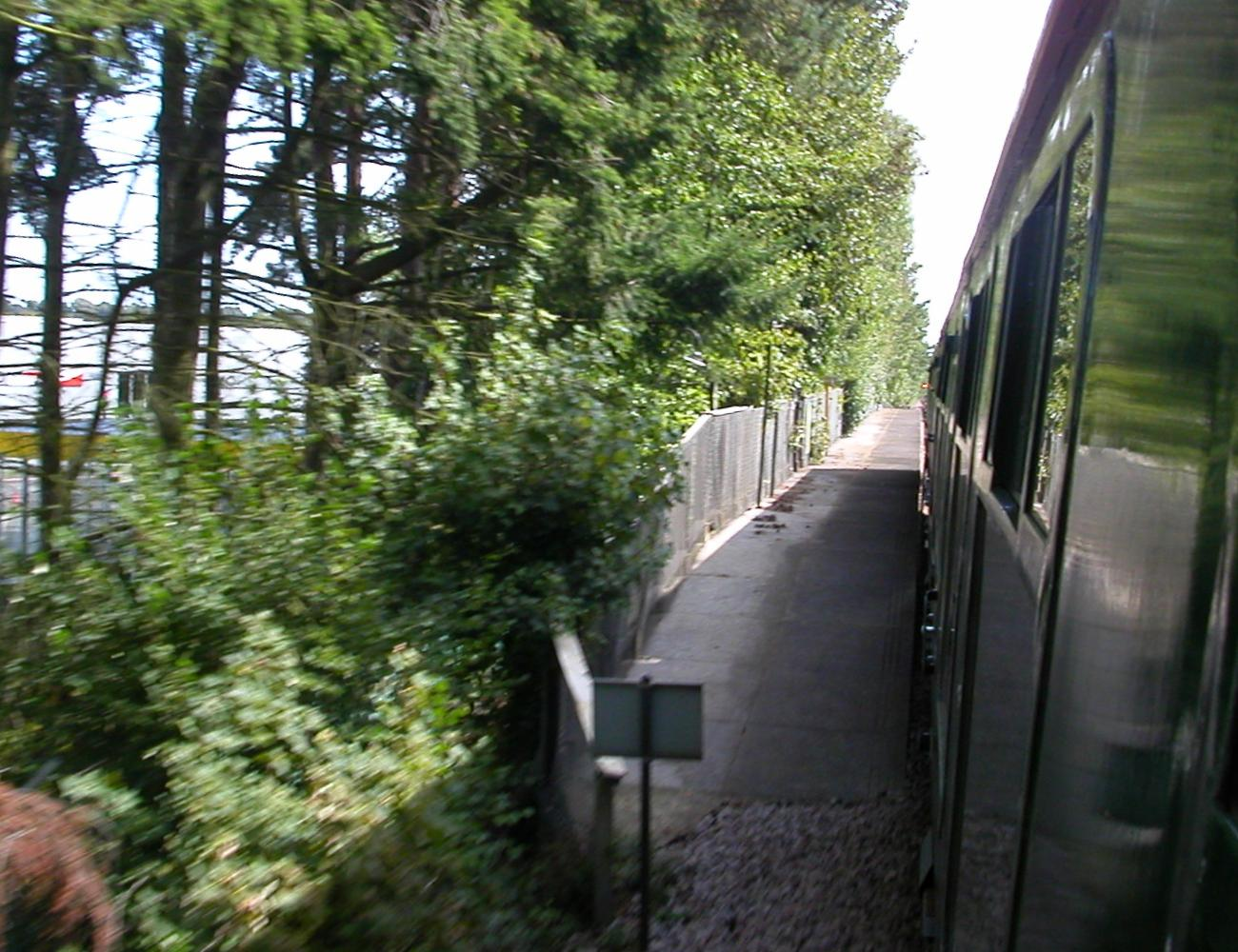 The former Ampress Works halt, near Lymington, Hampshire, England. Photographed from a passing train.